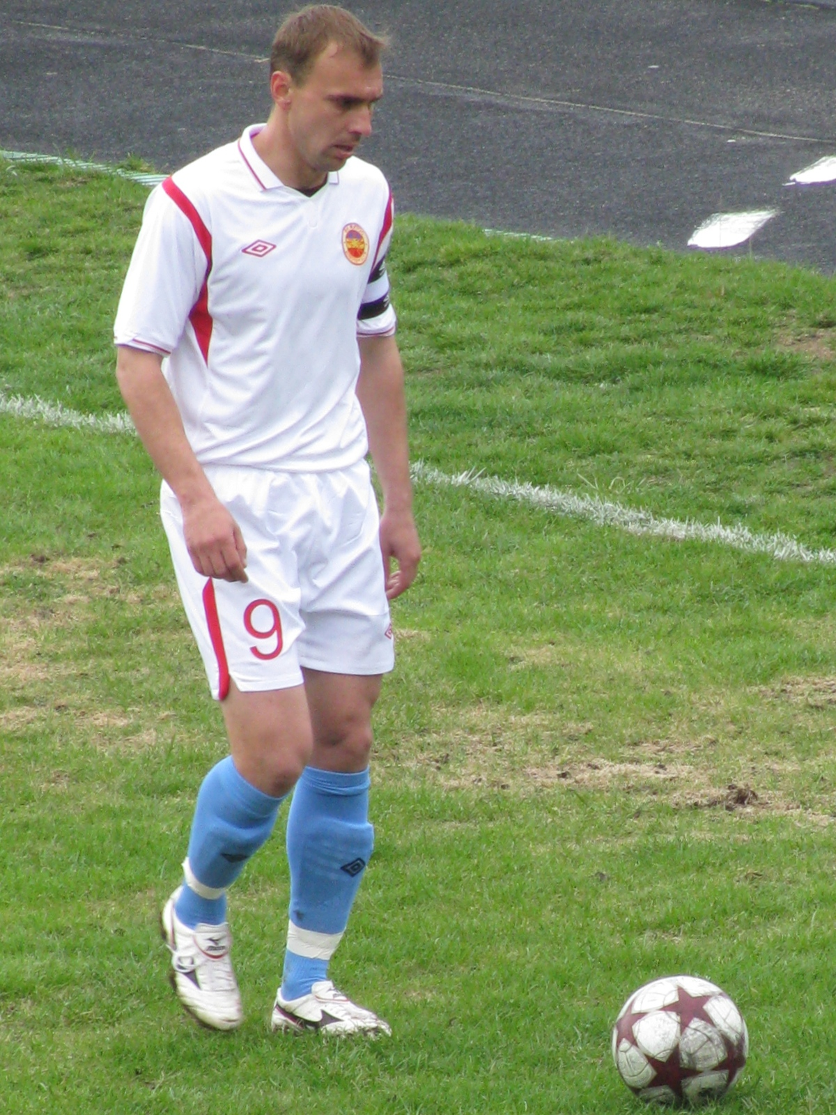 Football player Dmitry Govorukhin